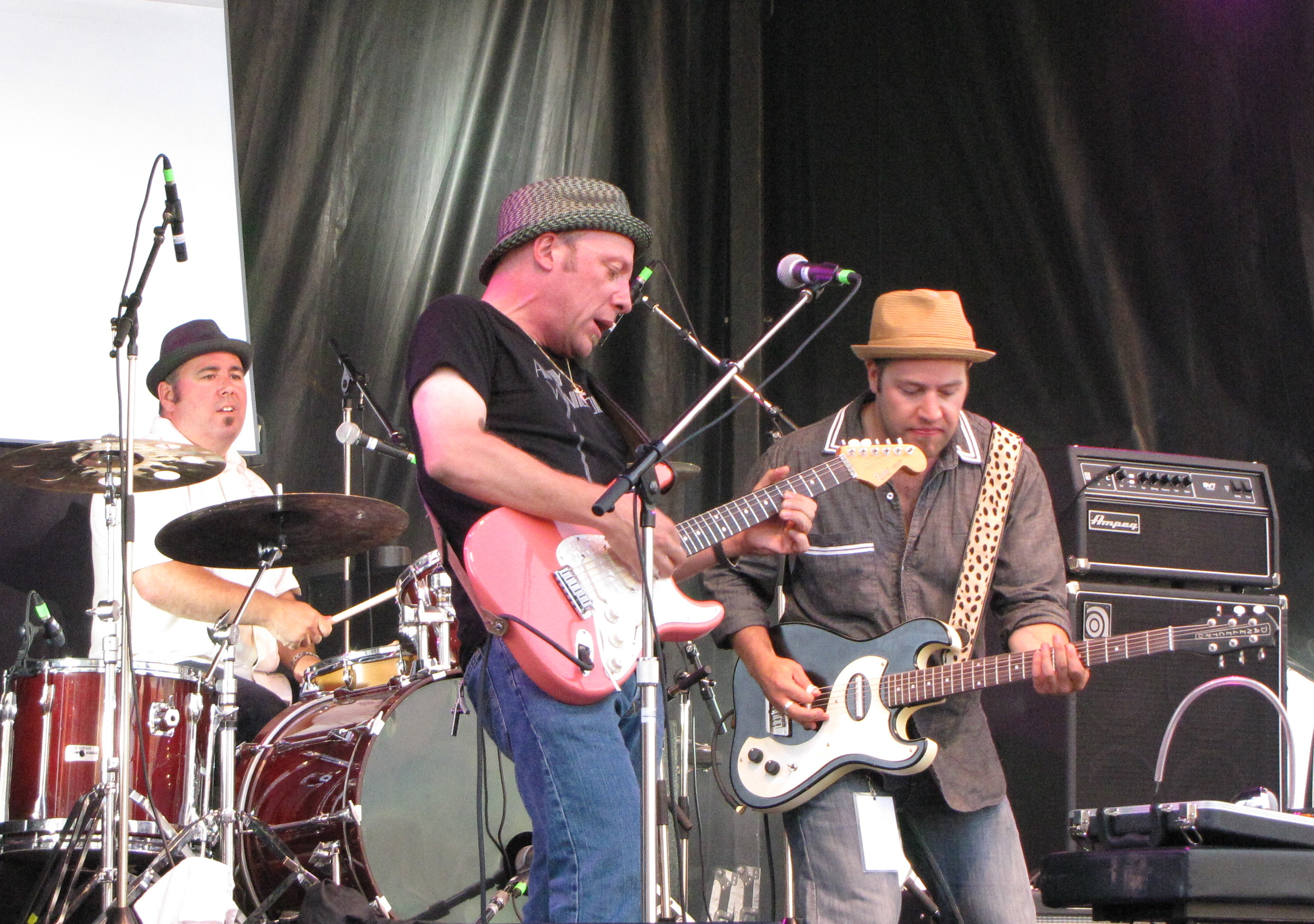 Canadian blues band Monkeyfest performing at the Kitchener Blues Festival in 2010. Ferom left to right: Matt Sobb (drums), Tony D (lead guitar) and Steve Marriner (vocals and baritone guitar)